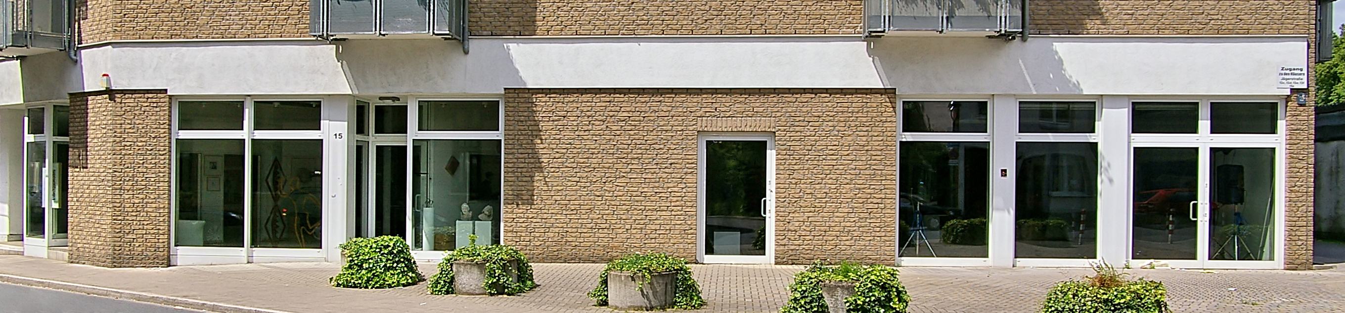 Exterior view of art gallery fiftyfifty in Eller, Düsseldorf, Germany, Europe